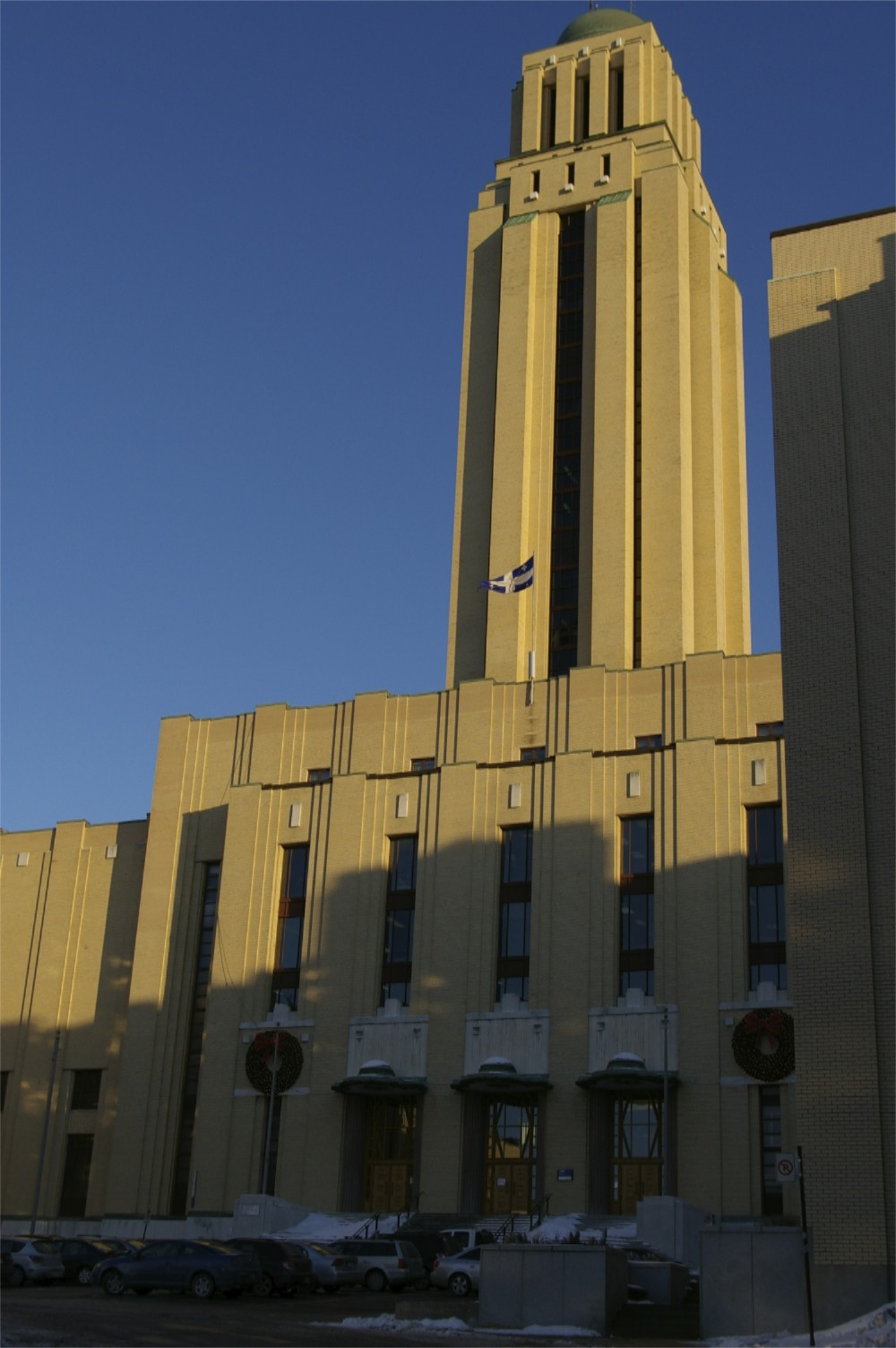 University of Montreal (Université de Montréal) and Roger-Gaudry building.